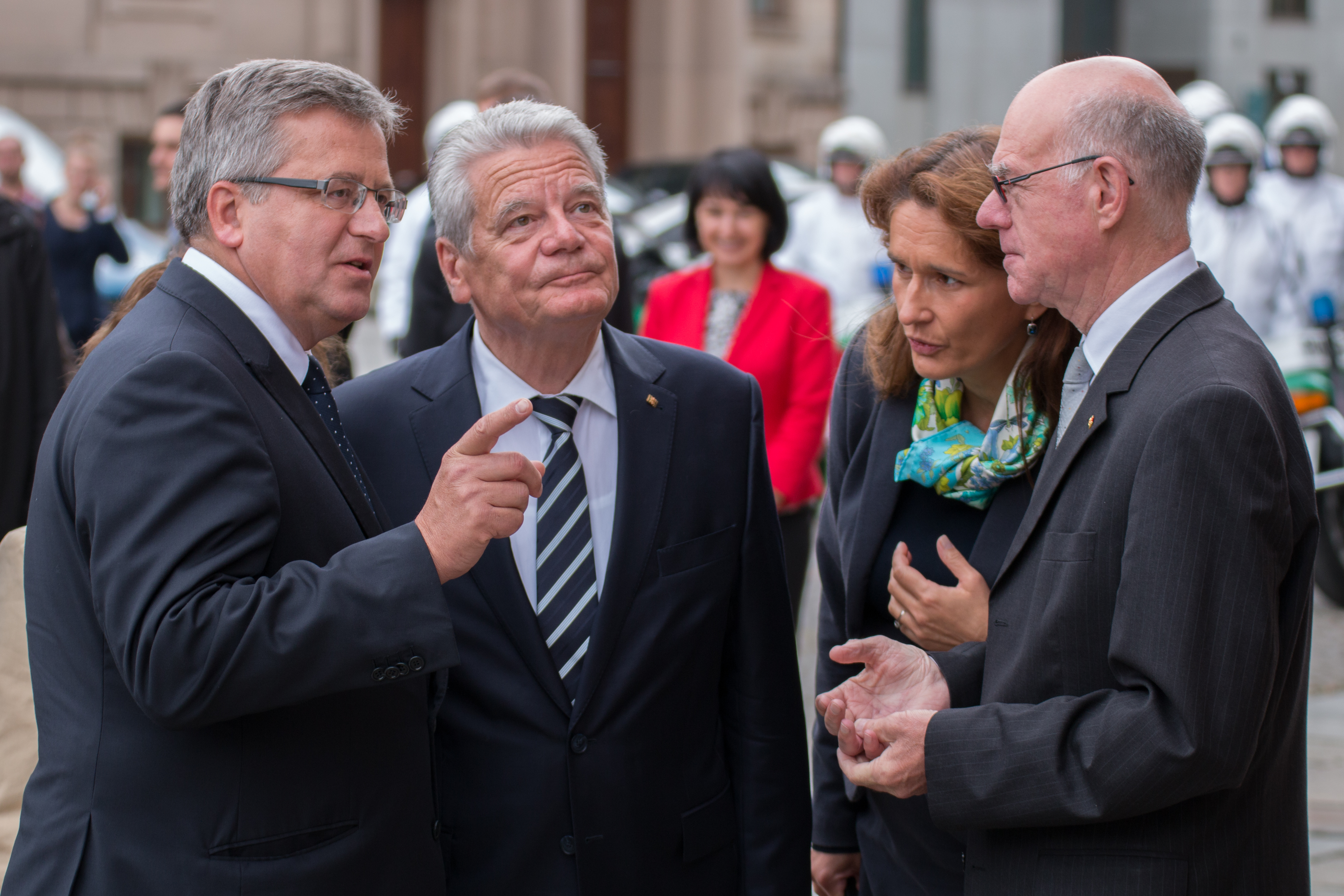 Bronisław Komorowski, Joachim Gauck and Norbert Lammert right after the hour of commemoration for the 75th anniversary of the beginning of World War II in front of Gdansk wall-part at the north eastern corner oft the Reichstag building